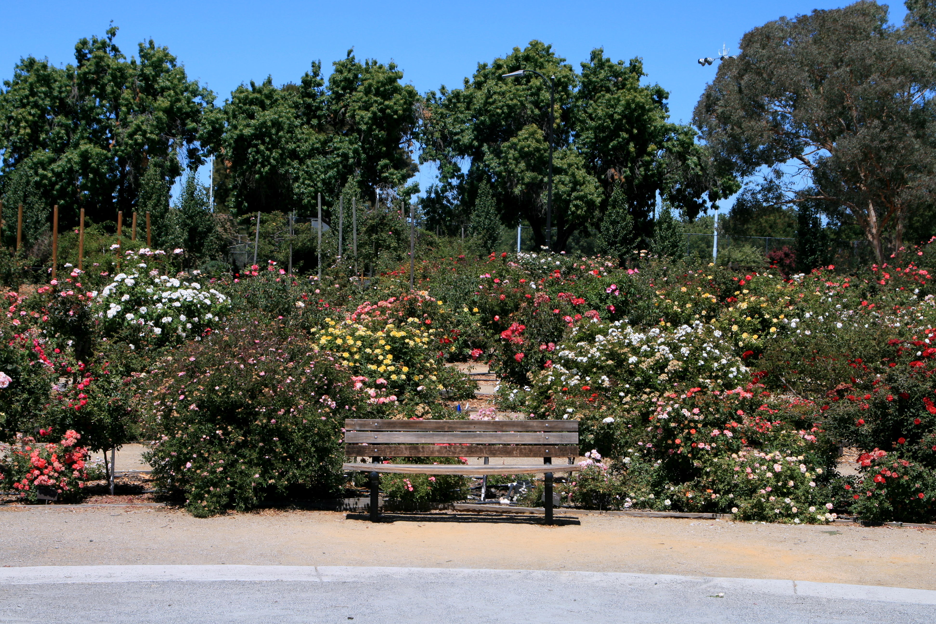 This is NOT and image from the THE SAN JOSE MUNICIPAL GARDEN- This image is of the Heritage Rose Garden in San Jose CA, not the San Jose Municipal Rose Garden